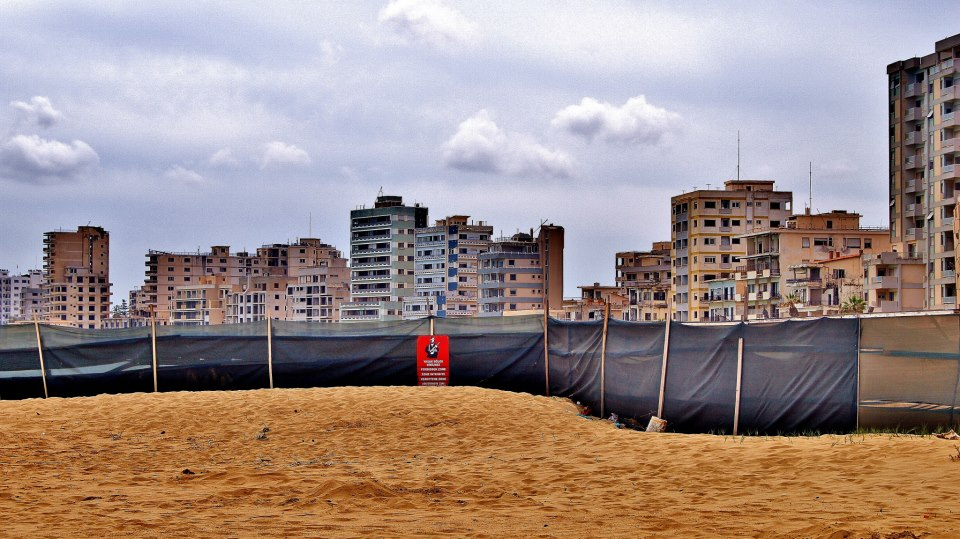 In the foreground is the Barrier which separates Varosha from the accessible area of Famagusta Bay.